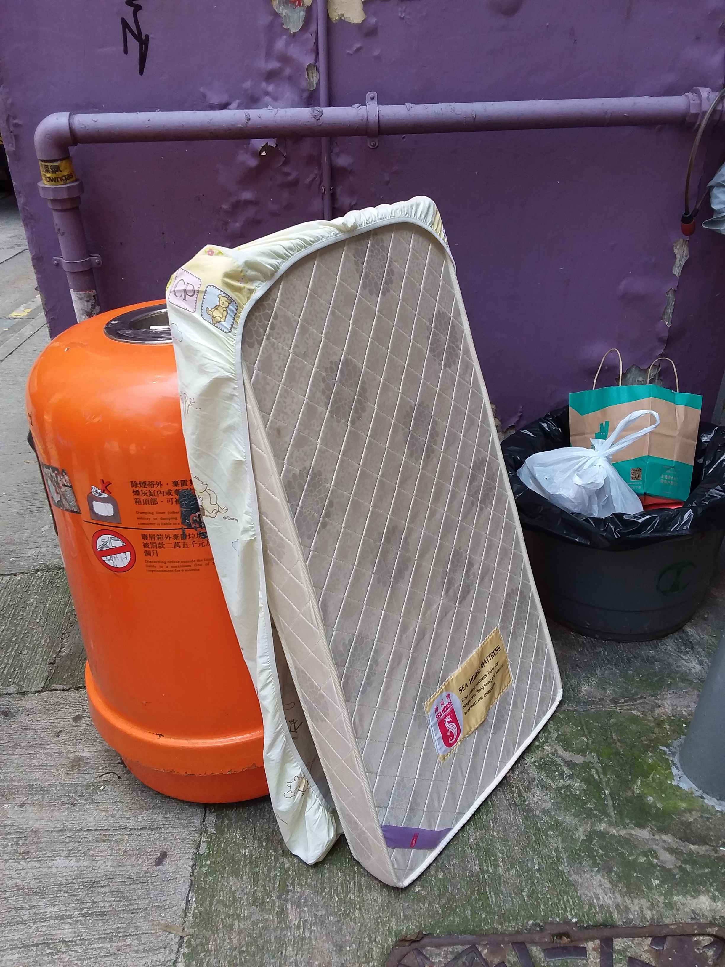 SeaHorse Mattress Hong Kong